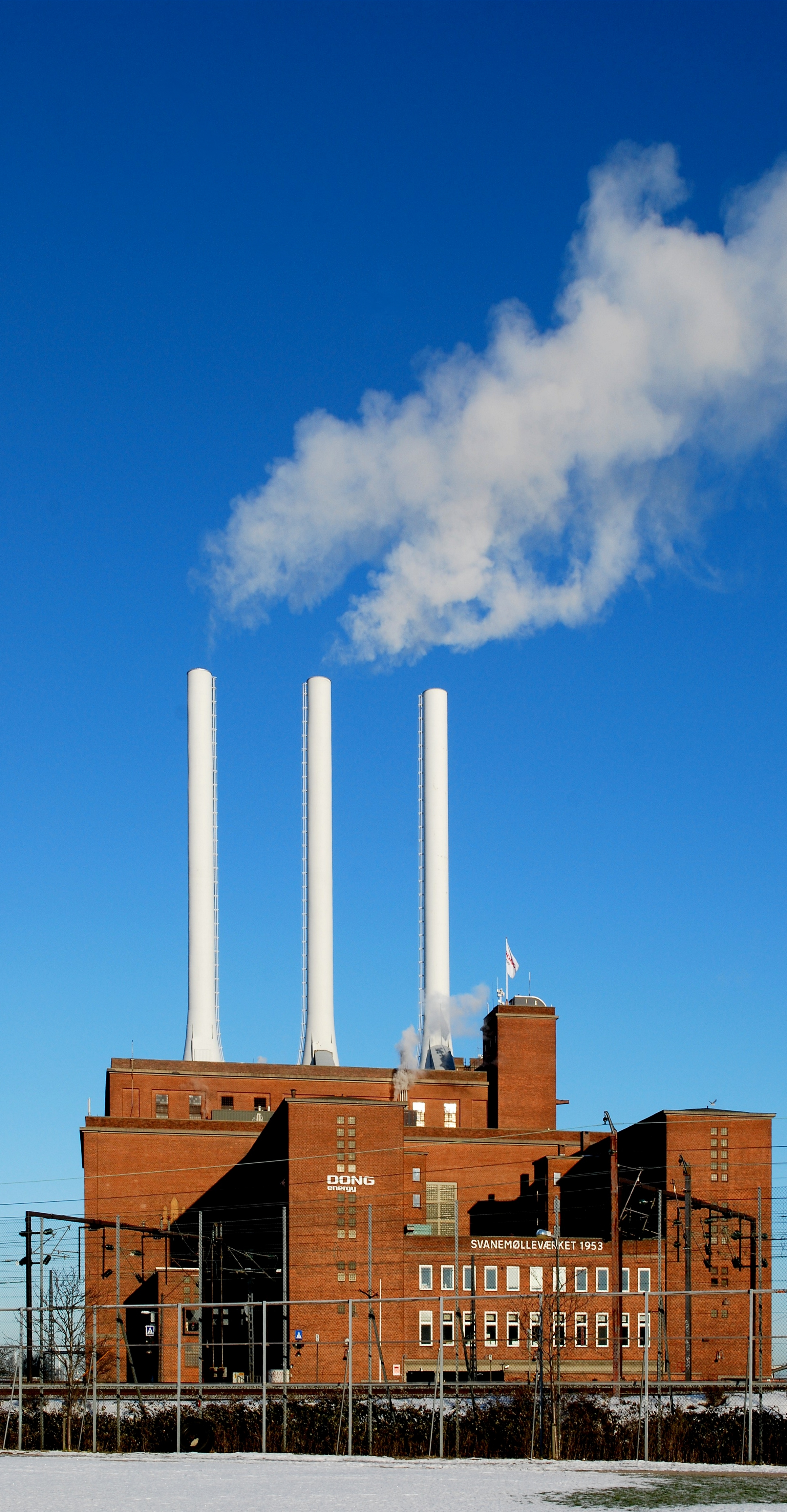 Svanemølleværket, combined power and heating station, Copenhagen